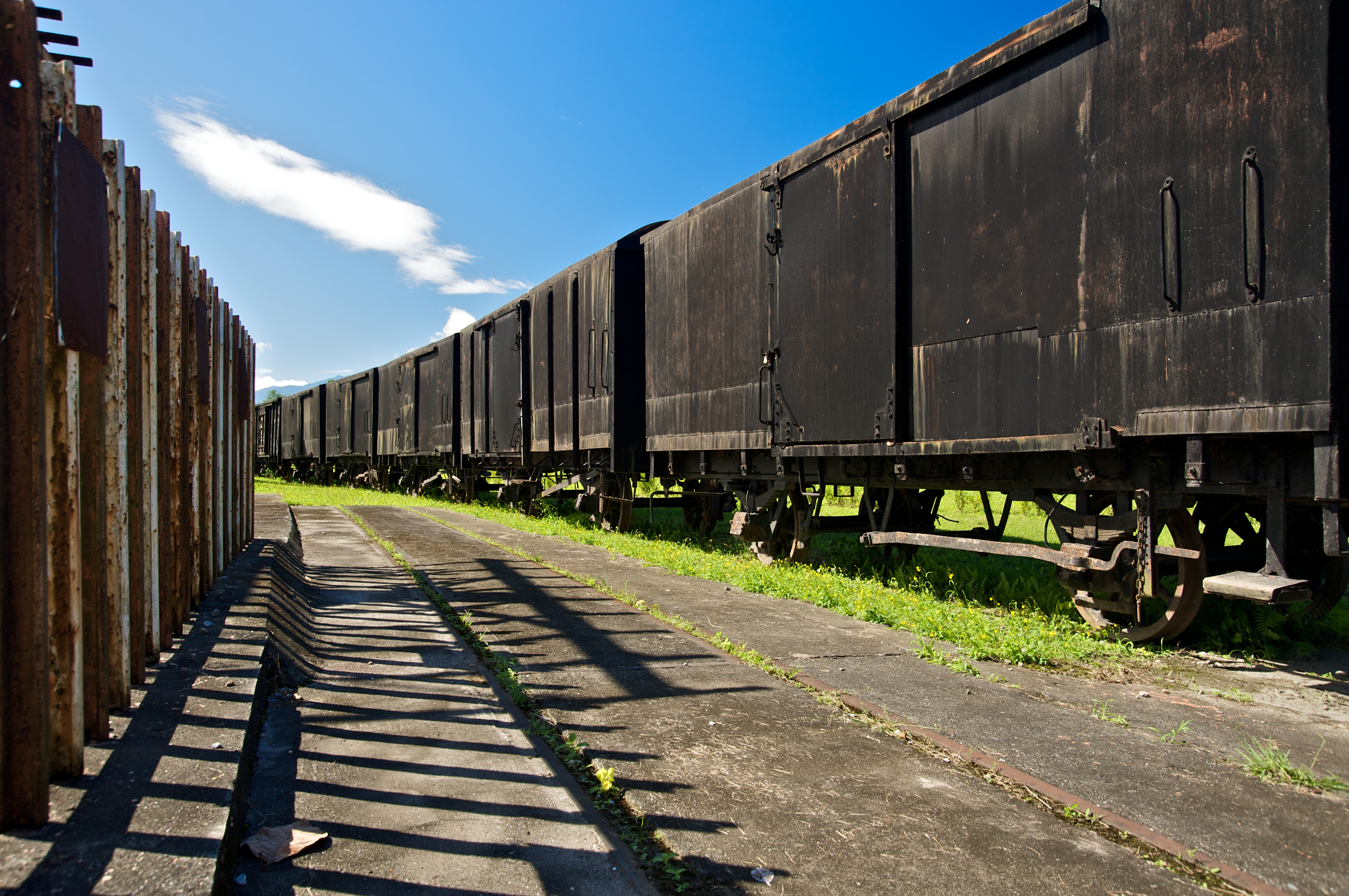 Historic sugar train exhibition at the GuangFu plant of the Taiwan Sugar Corporation in Hualien, Taiwan|Taiwan